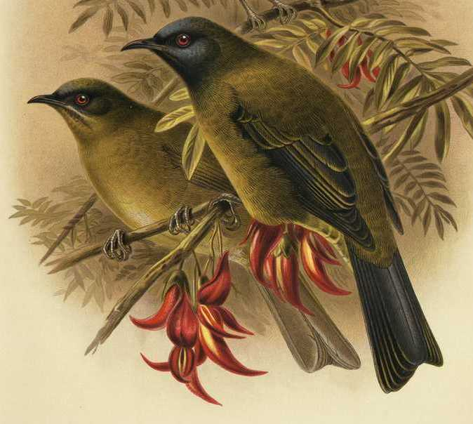 Illustrations of (top) Silver-eye and (bottom) male (right) & female (left) Bellbirds.